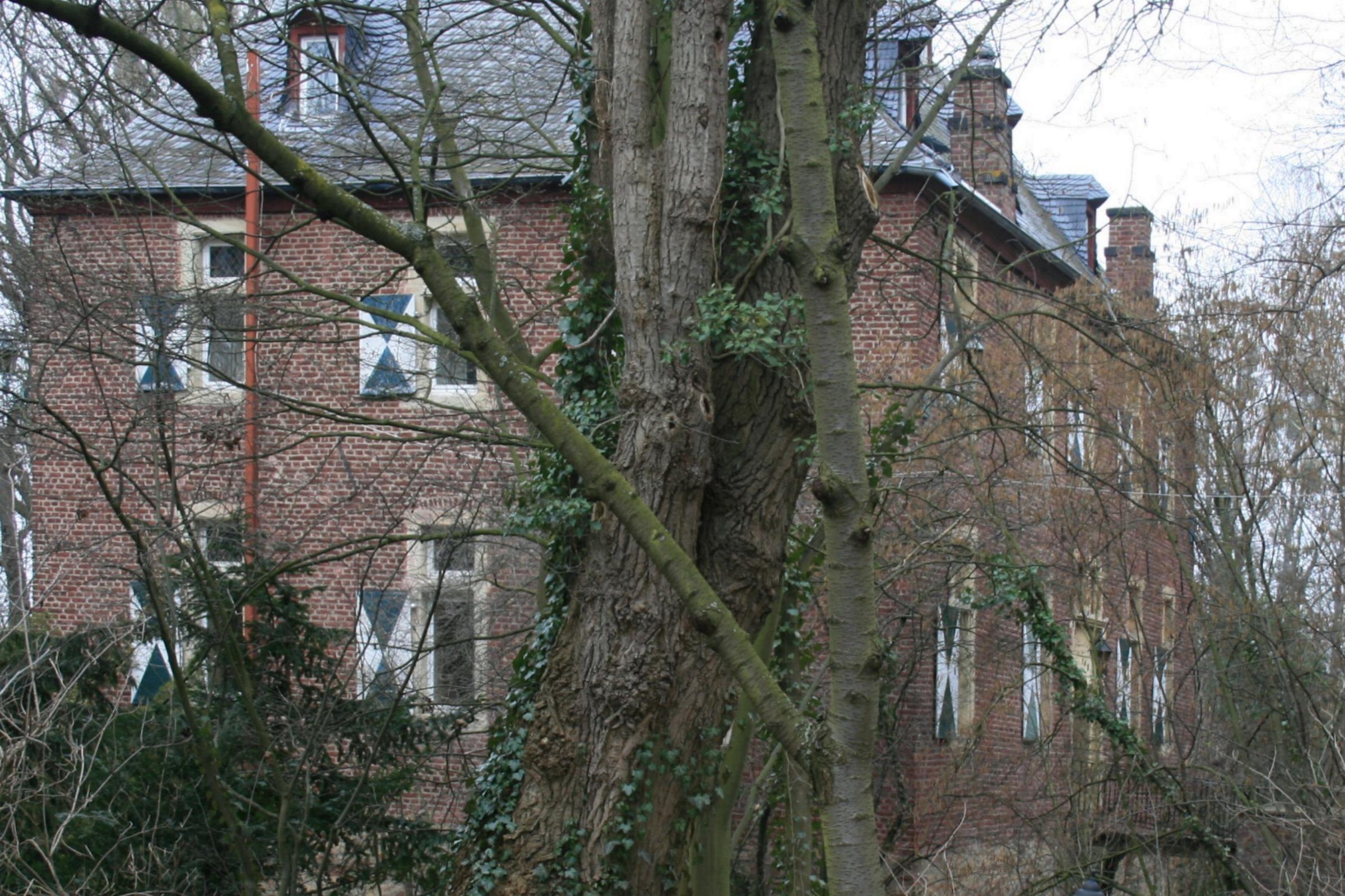 Cultural heritage monument No. Dis-02 in Vettweiß